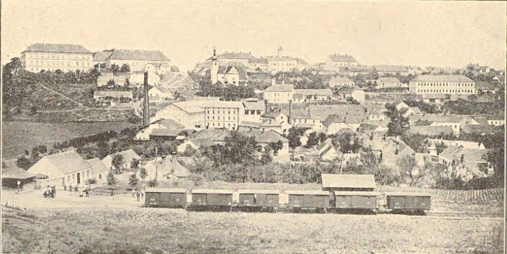 Picture of Rosice from Hasičská kronika.